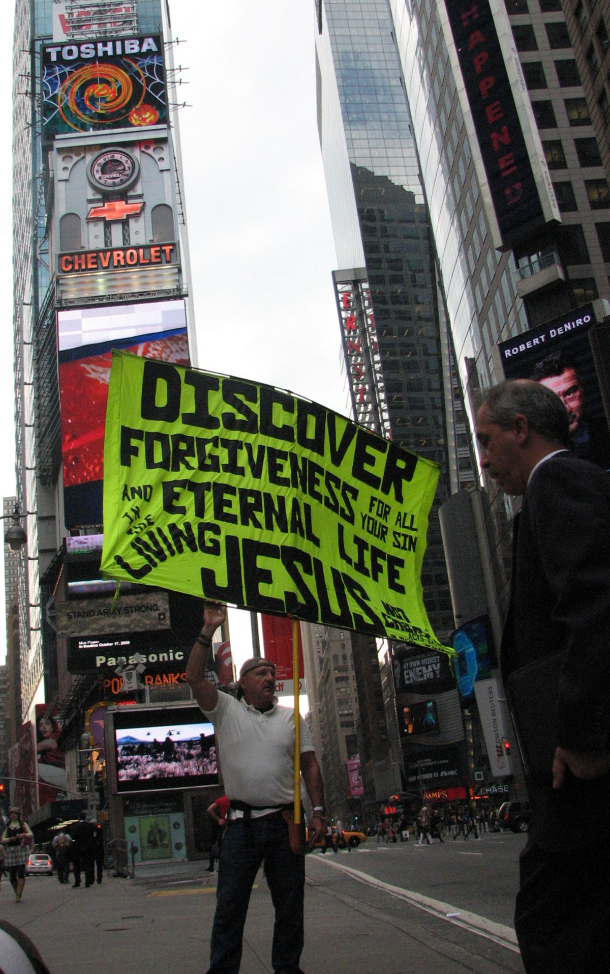 Street Preacher holds sign that reads "Discover forgiveness for all your sin and eternal life in the Living Jesus" in Times Square, New York.